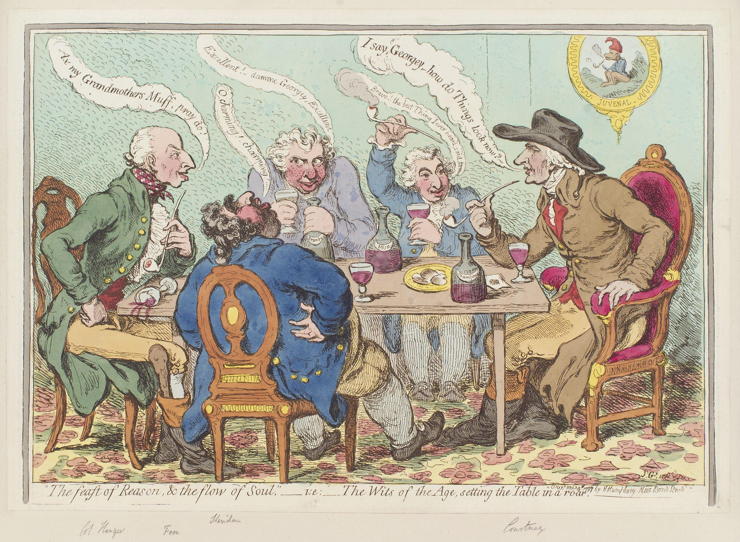 All images in this batch have been confirmed as author died before 1939 according to the official death date listed by the NPG.